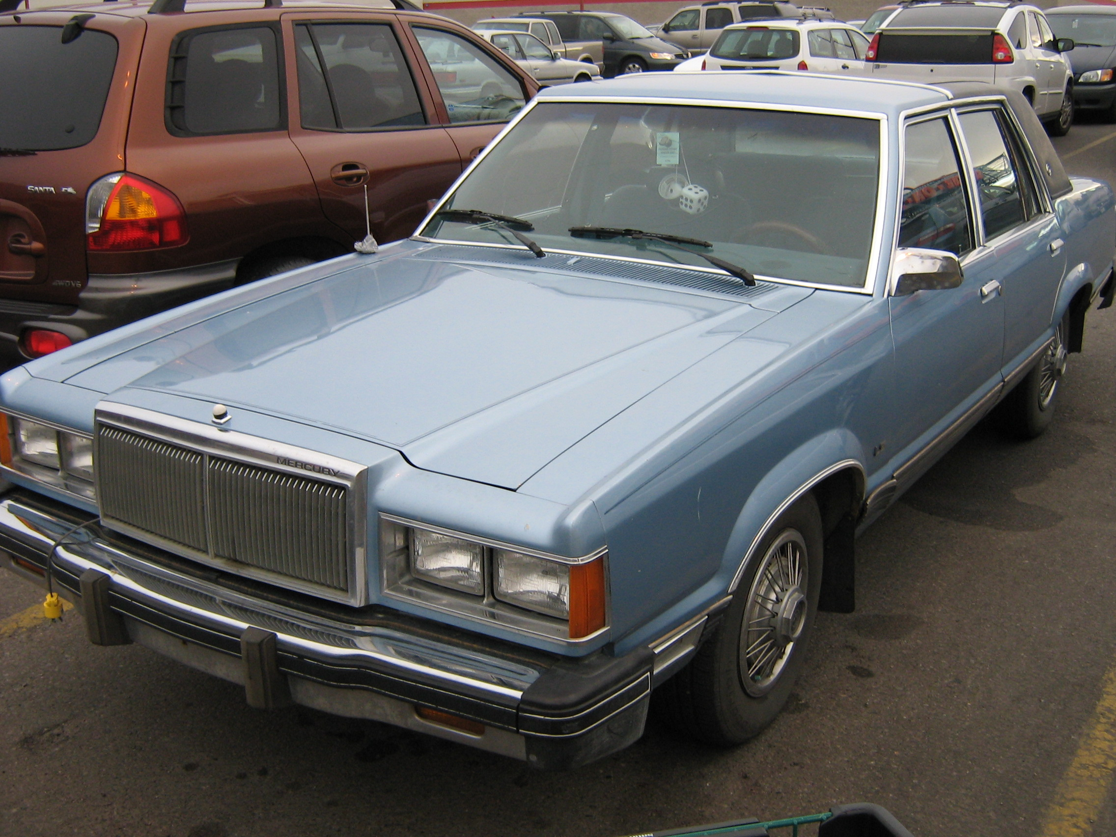 The rarely seen four door Mercury Cougar. A wagon would be even more rare.